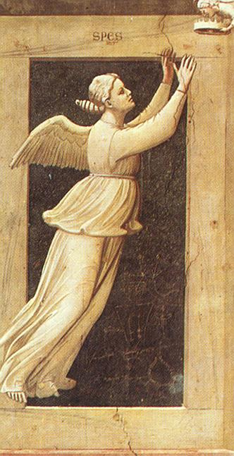 Life of Christ